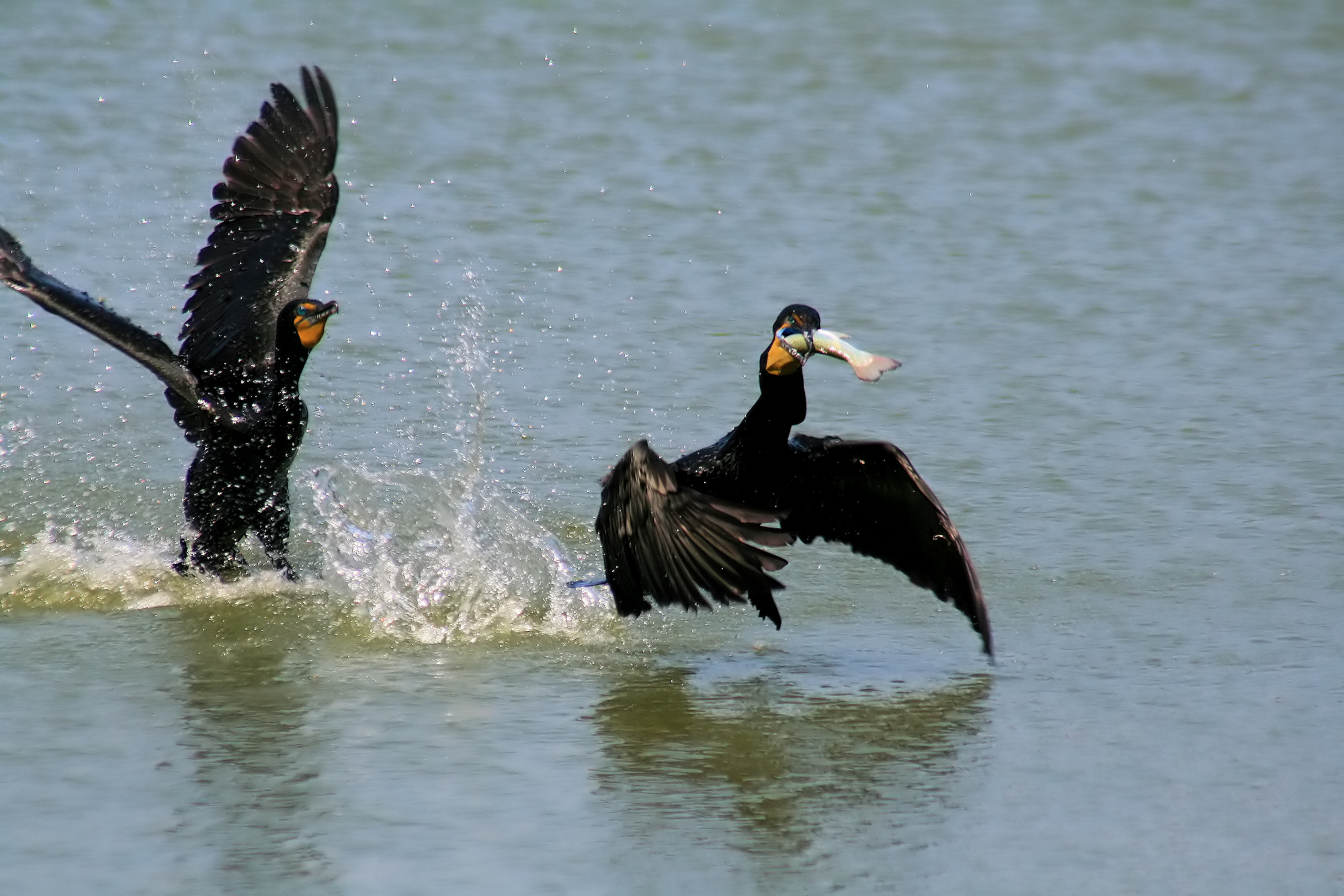 Two Double-crested Cormorants (Phalacrocorax auritus) and one fish. Like all cormorants, the double-crested dives to find its prey. It mainly eats fish. Fish are caught by diving under water. Smaller fish may be eaten while the bird is still beneath the surface but bigger prey is often brought to the surface before it is eaten.